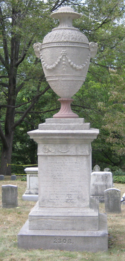 Charles Bulfinch grave in Mount Auburn Cemetery.